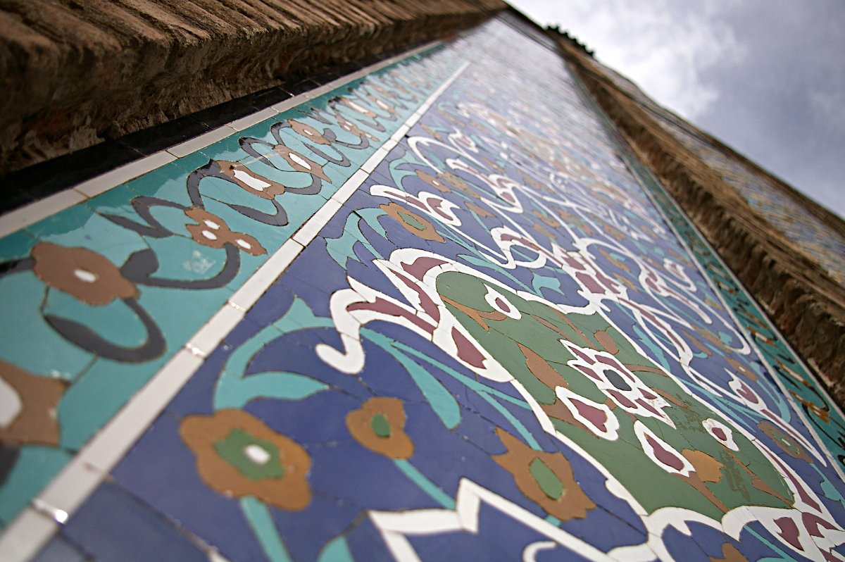 Mosaic in Jame' Atiq Mosque, Qazvin, Iran